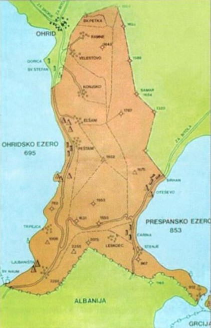 Map of the National Park Galichica in Macedonia